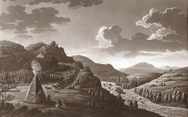 Fell Lapps / Lapponi dei tunturi (17th July 1799)